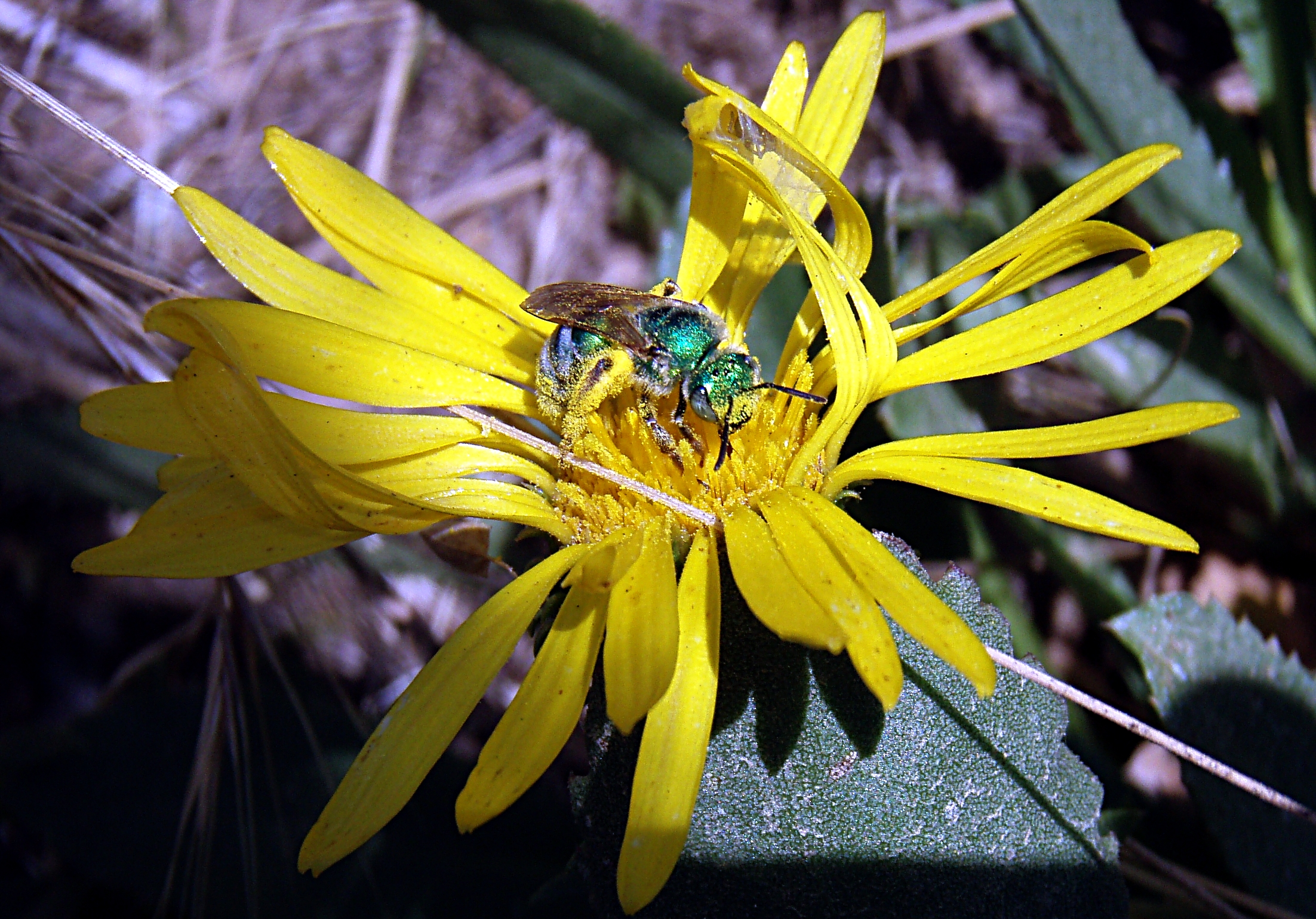 Green Bee, genus Agapostemon